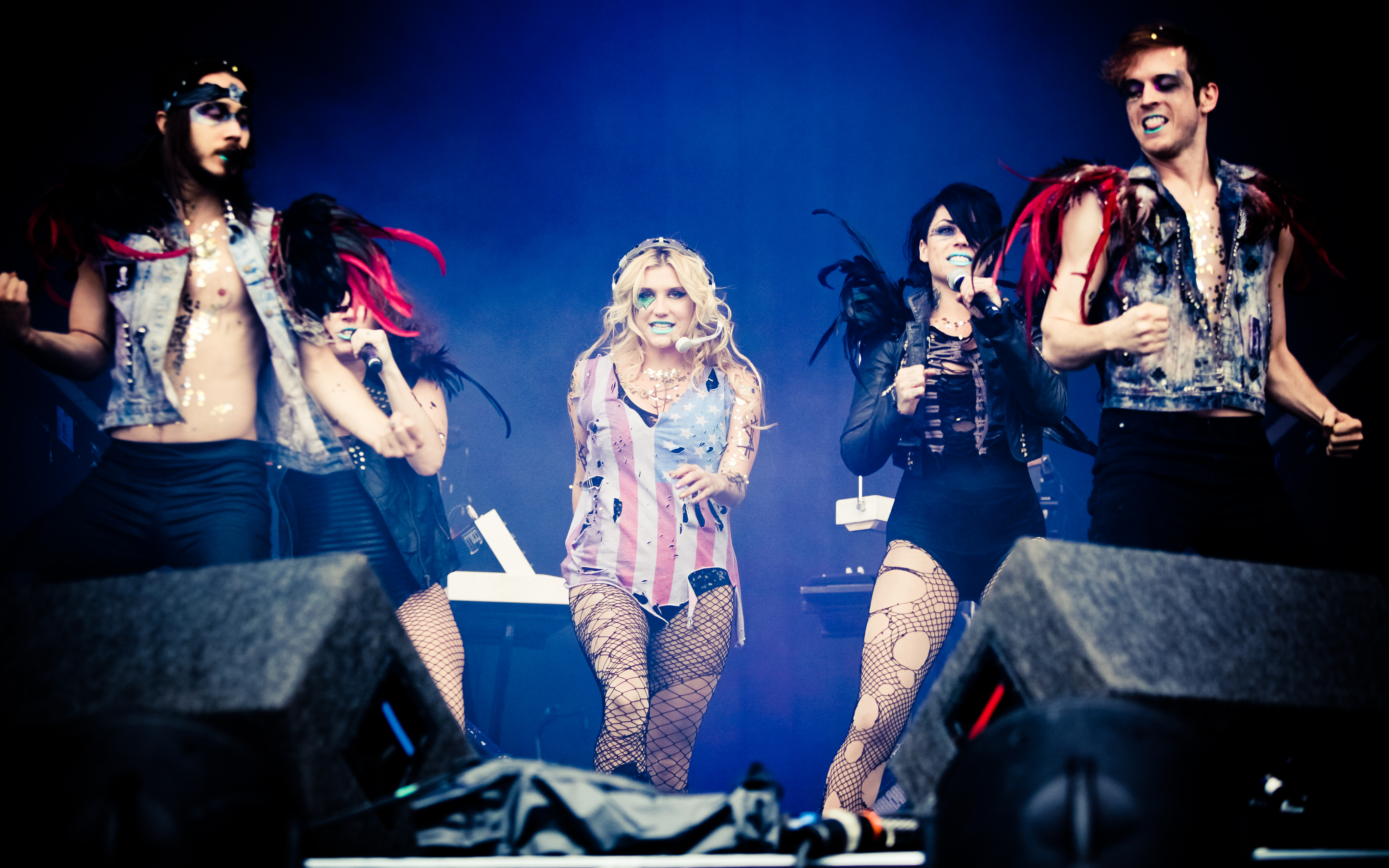 Kesha in 2011